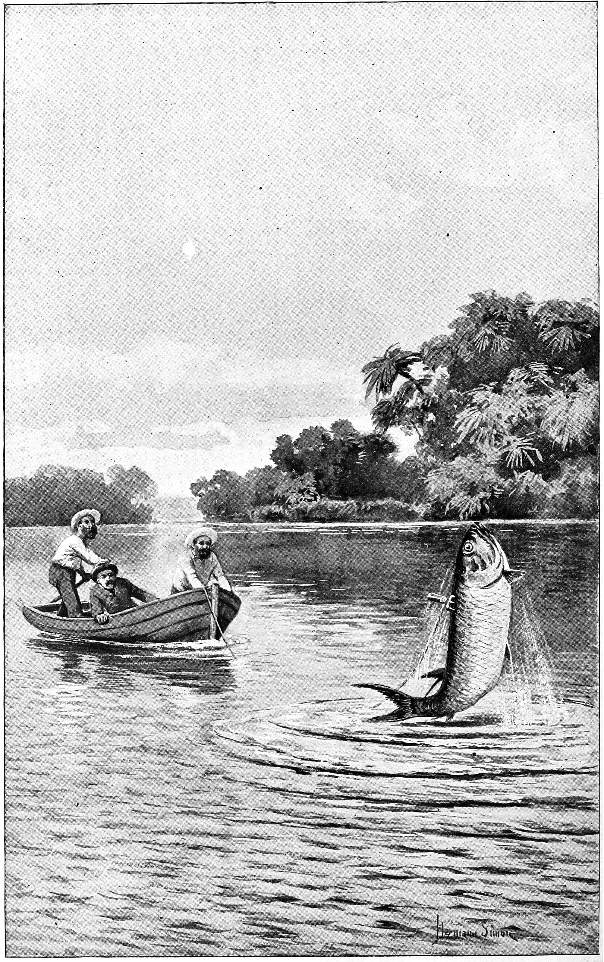 A speared tarpon leaps from the water, by illustrator Hermann Simon